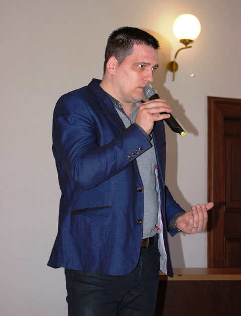 Tomas Zdechovský in the 11th diocesan meeting of elderly people in Hradec Kralove, 20. 6. 2015